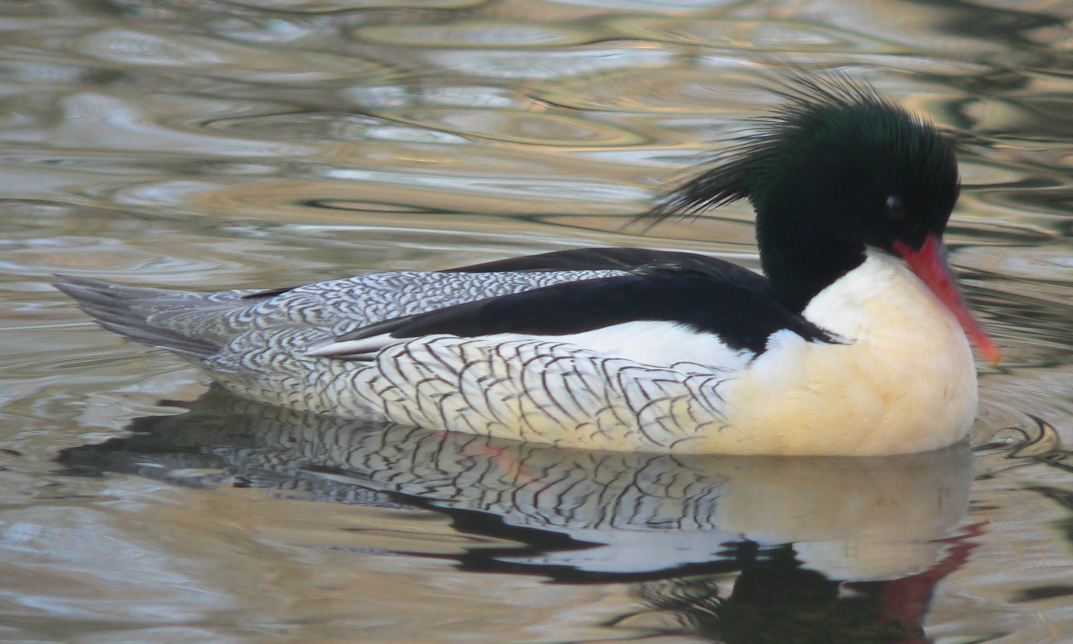 Scaly-sided Merganser